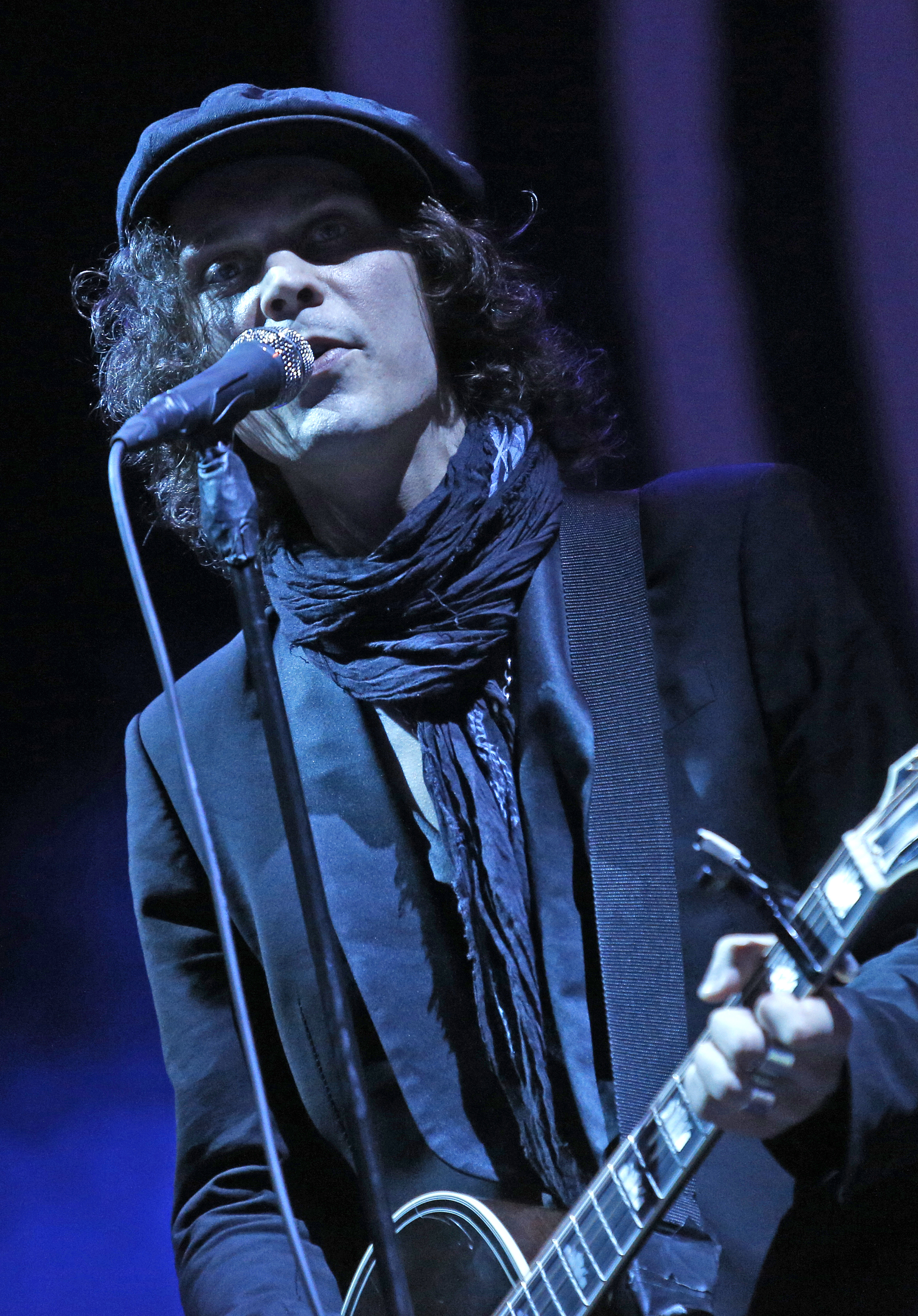 A cropped version of File:Nova2013_HIM_Ville_Valo_0006.JPG